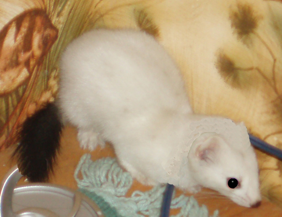 Veasel (Mustela erminea) at winter. Photo taken by Friman 01.02.2005 in Norway.